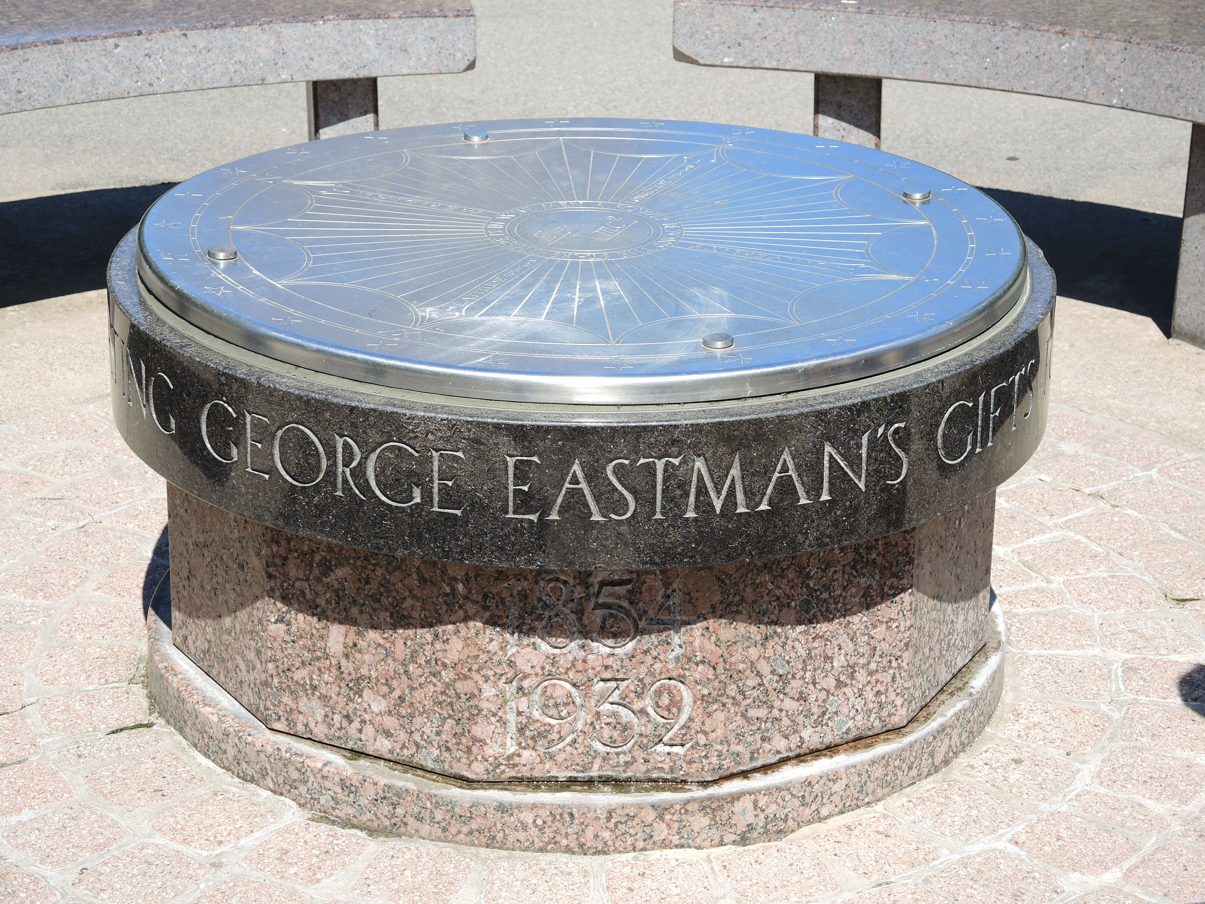 Meridian marker near the center of Eastman Quadrangle at the University of Rochester. It was erected in 1954 to commemorate George Eastman's 100th birthday by Eastman's former associate and University alumnus Charles F. Hutchison. It reports its location as 43°07'40"N 77°37'49"W and reads "COMMEMORATING GEORGE EASTMAN'S GIFTS FOR EDUCATION, HEALTH, MUSIC" along its circumference.